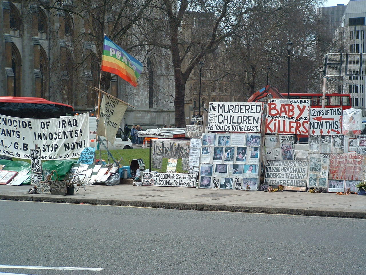 Brian Haw's anti-war demonstration in Parliament square